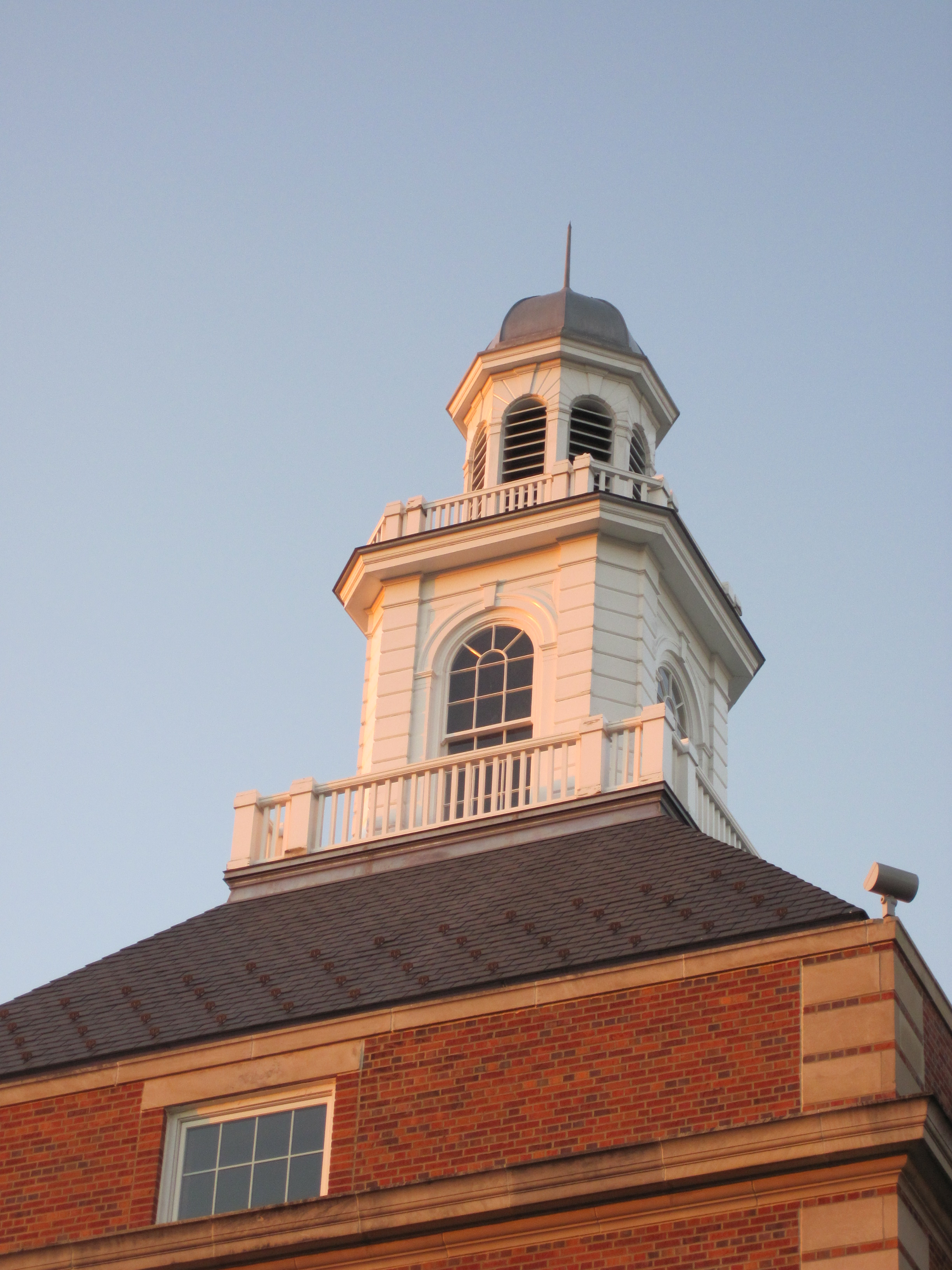 Bell tower, City High, Iowa City.